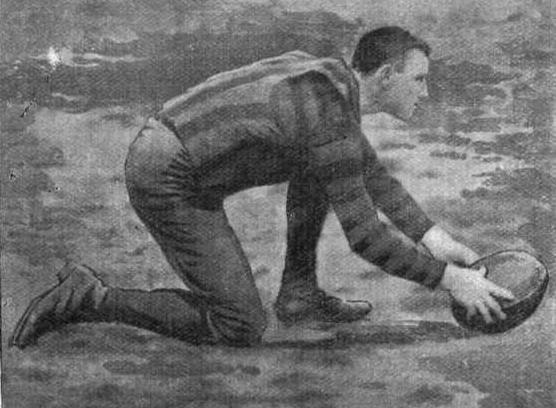 Photomechanical print of Australian footballer George Sparrow: halftone, 1 June 1875